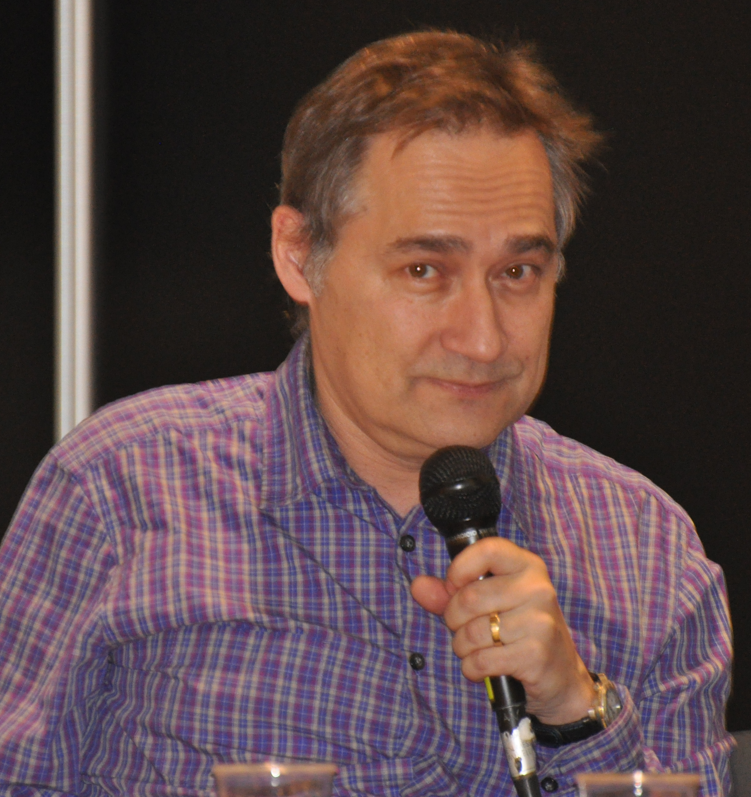 Finnish psychiatrist Ben Furman at the Helsinki Book Fair 2010.